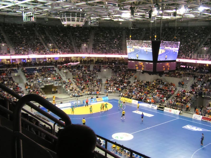 SAP Arena, Mannheim (Germany), on March 12th 2006 during the Handball game SG Kronau-Östringen - SC Magdeburg (sold out)